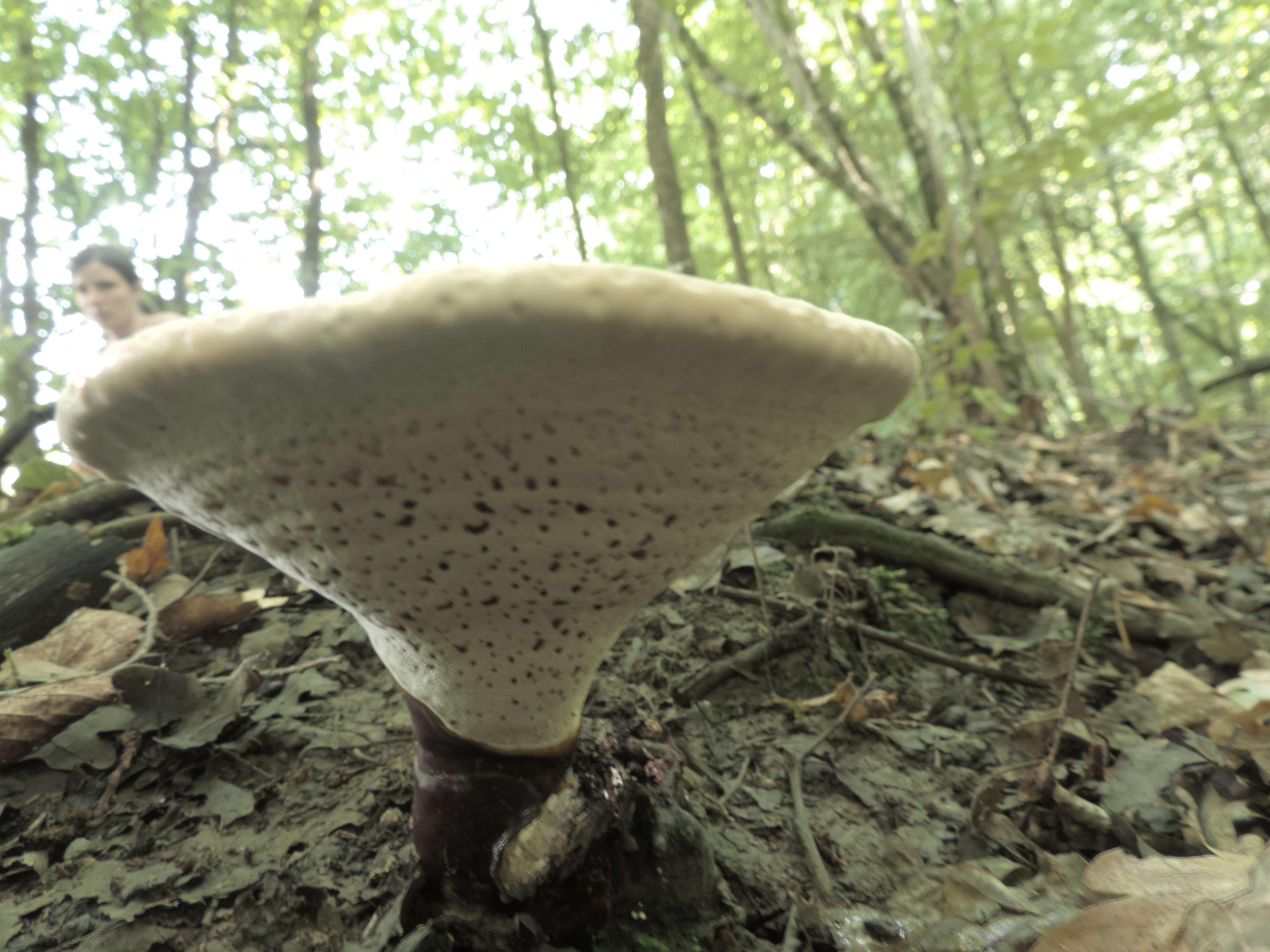 Ganoderma lucidum